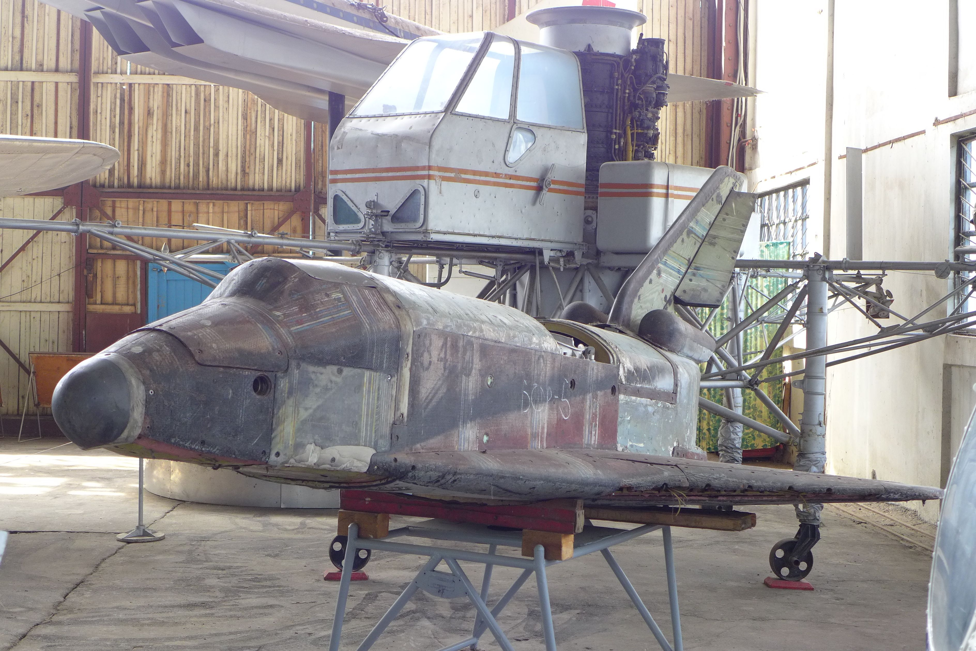 BOR-5 test vehicle on display at Monino Airfield. This is vehicle 502, one of five built.